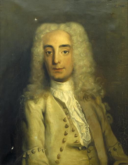 Willem Röell (1700-1775); based on Anatomische les van dr. Willem Röell painted by Cornelis Troost (1697-1750)